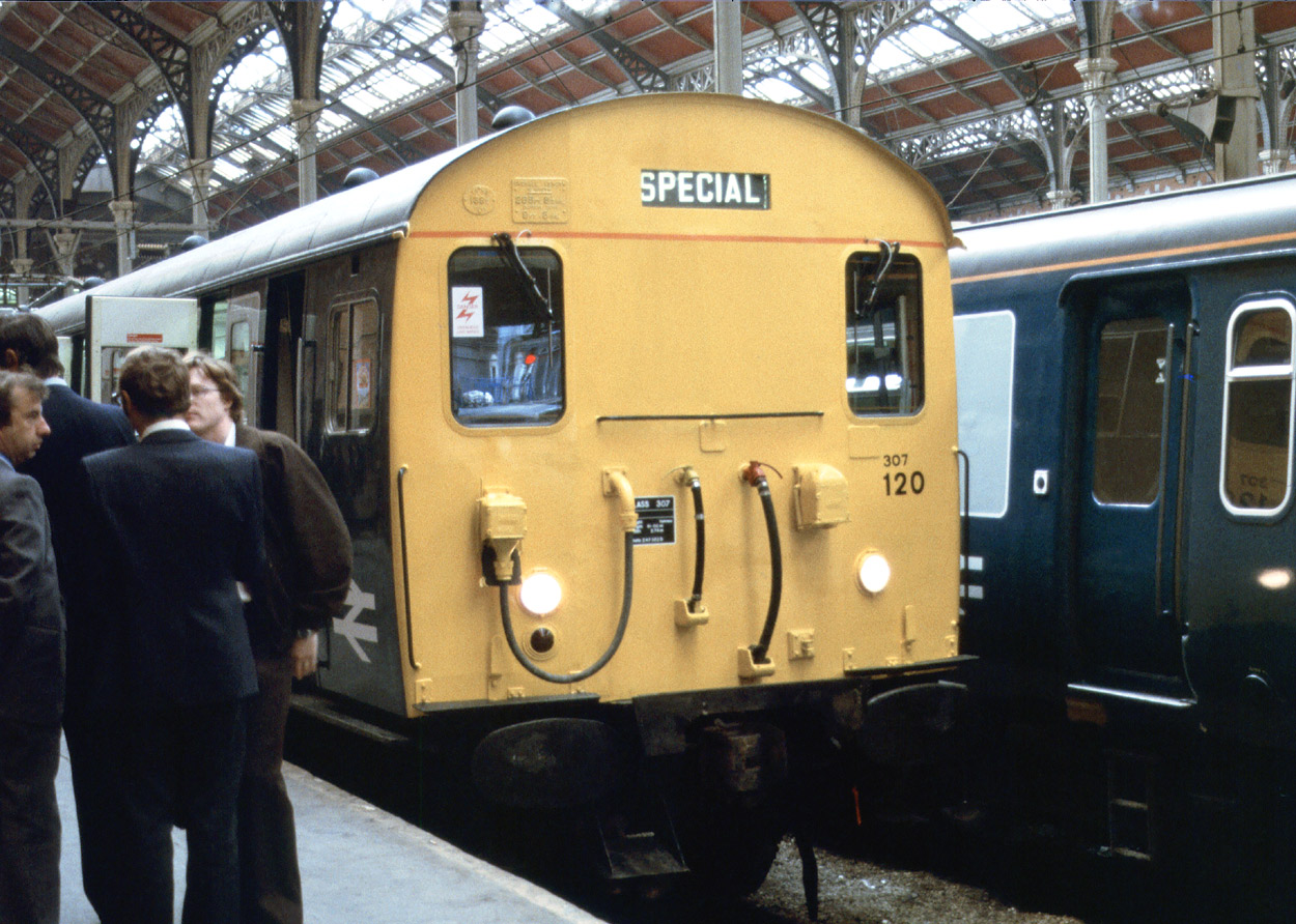 The front of a refurbished British Railways class 307 train without the headboard. Behind can be seen part of a class 315 train.